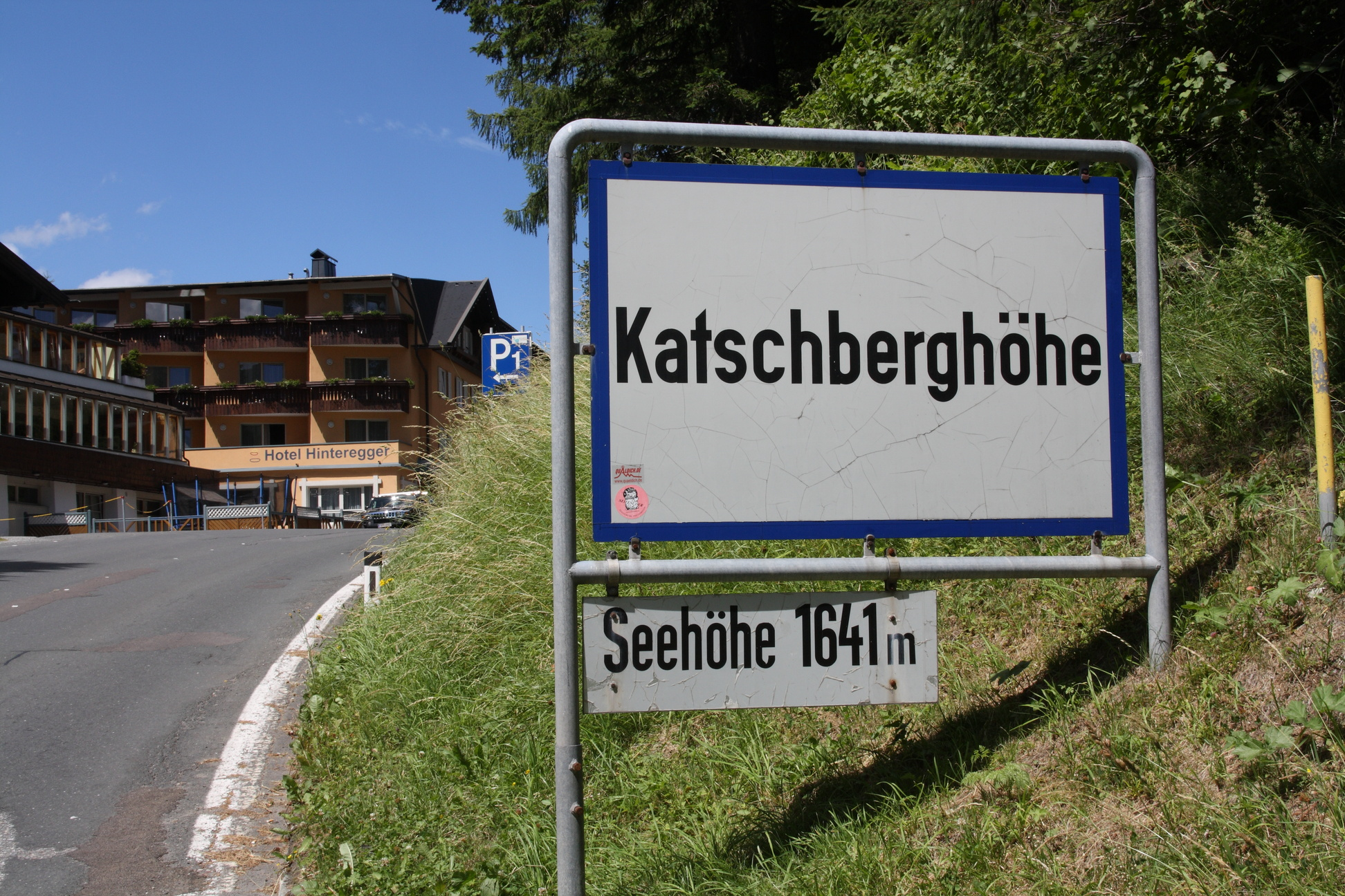 Katschberg Pass (German: Katschberghöhe), tablet on top of the pass